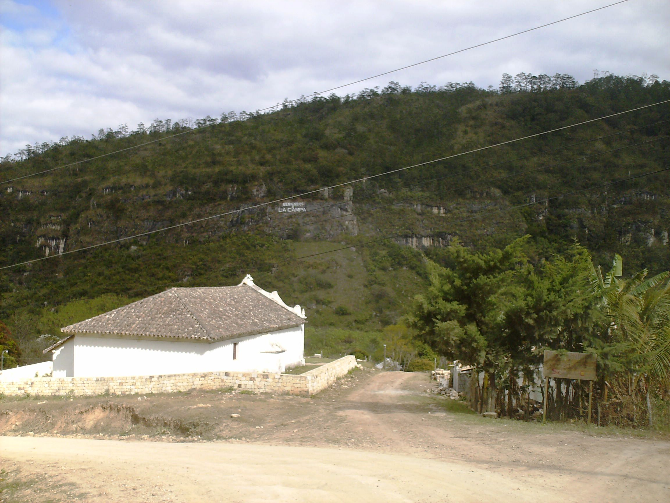 La Campa, municipality in the Honduran department of Lempira.